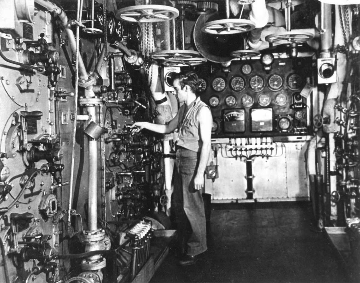 Engineering Spaces aboard the South Dakota (BB-57).